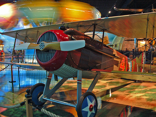 The Kalamazoo Air Zoo located in Kalamazoo.